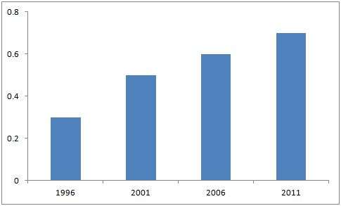 Percentage of couples that are same-sex in Australia according to the Census of Population and Housing